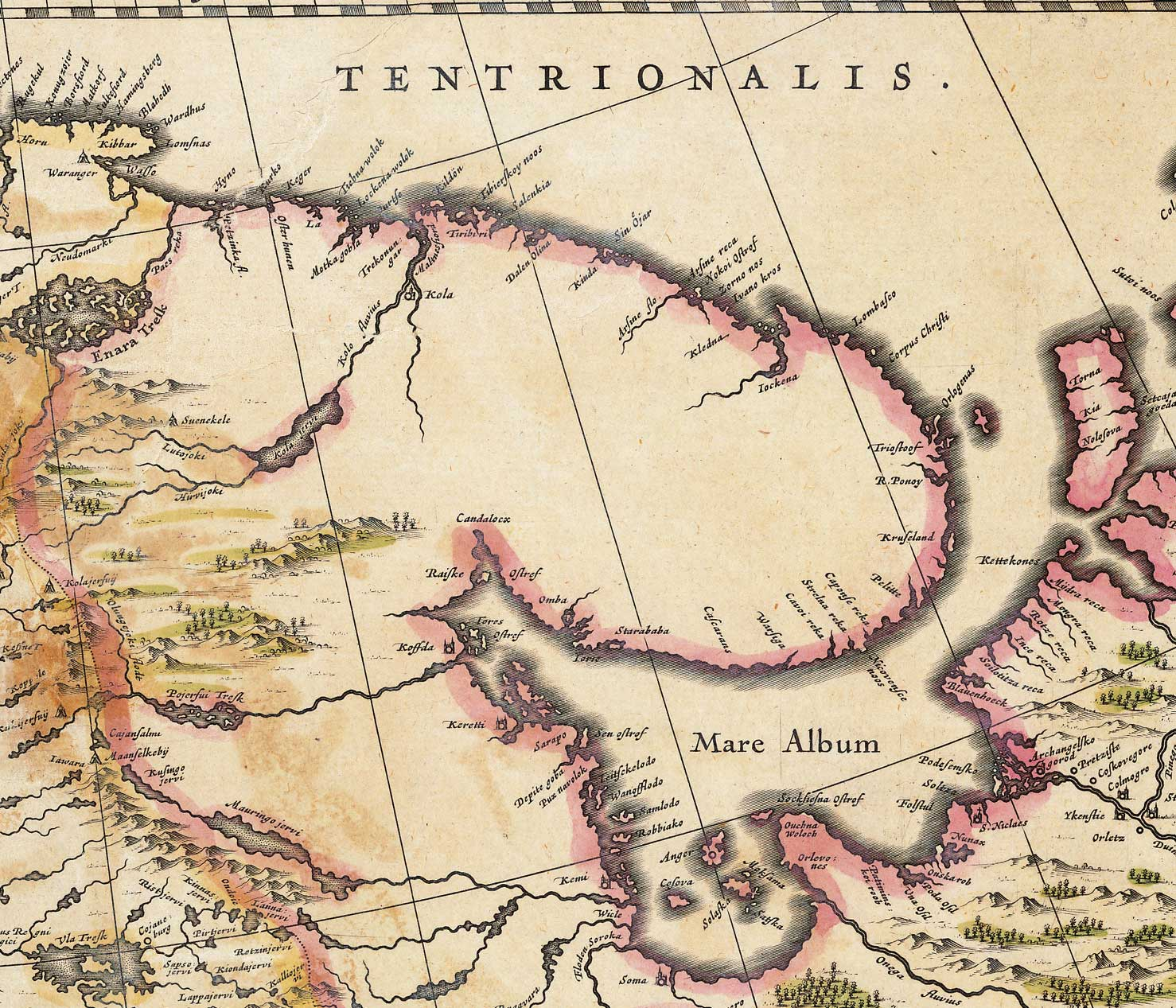 Map of the White Sea and adjacent regions. From the Dutch "Novus Atlas" (1635). Cartographer: Willem Janszoon Blaeu.